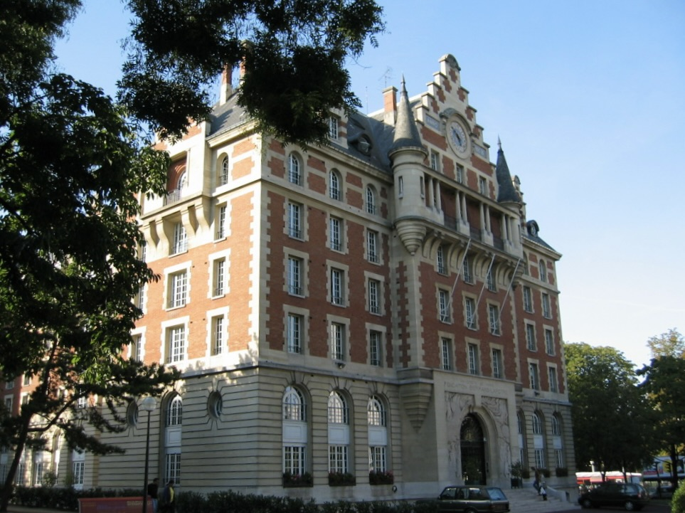 Author: Olivier Coudevylle